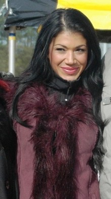 Rosa Mendes at WWE Tribute to the Troops Event on December 10, 2011 in Fayetteville, North Carolina